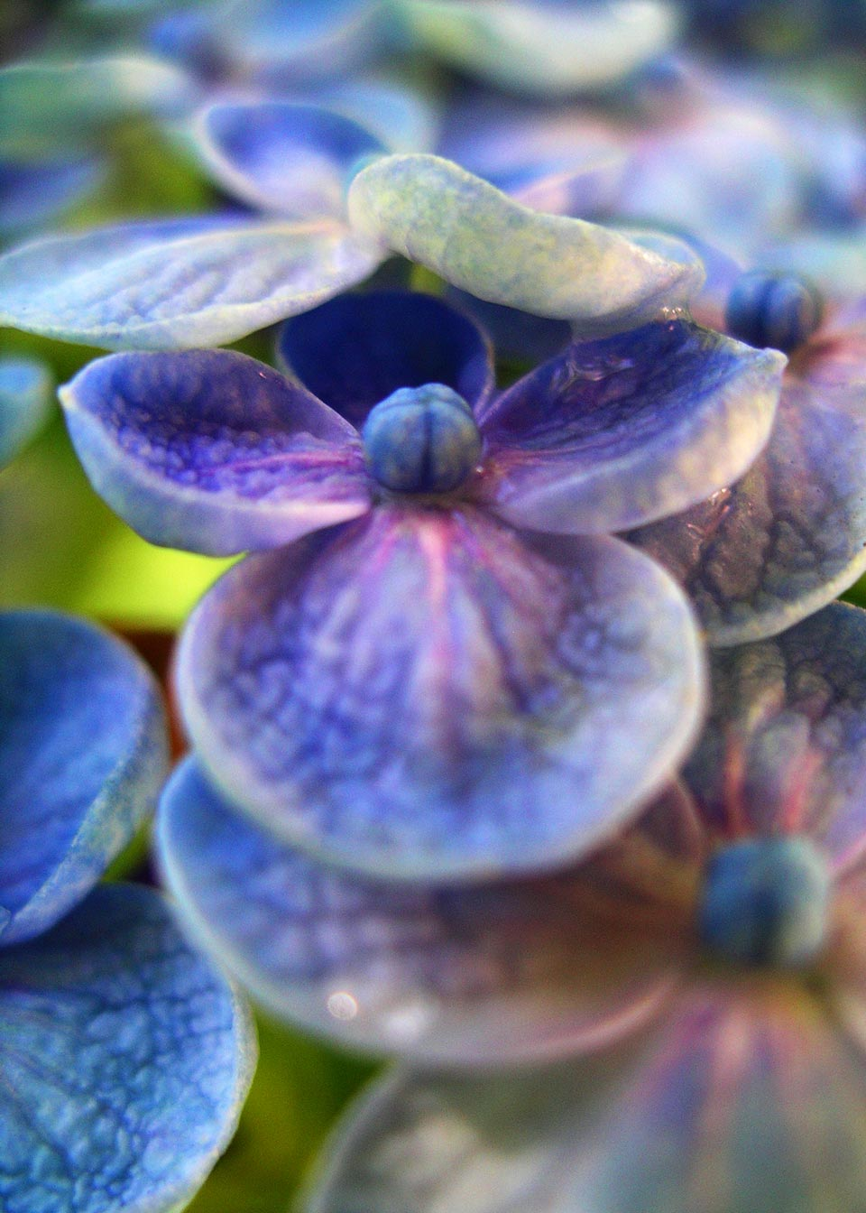 Closeup flower of round-petal blue Hydrangea